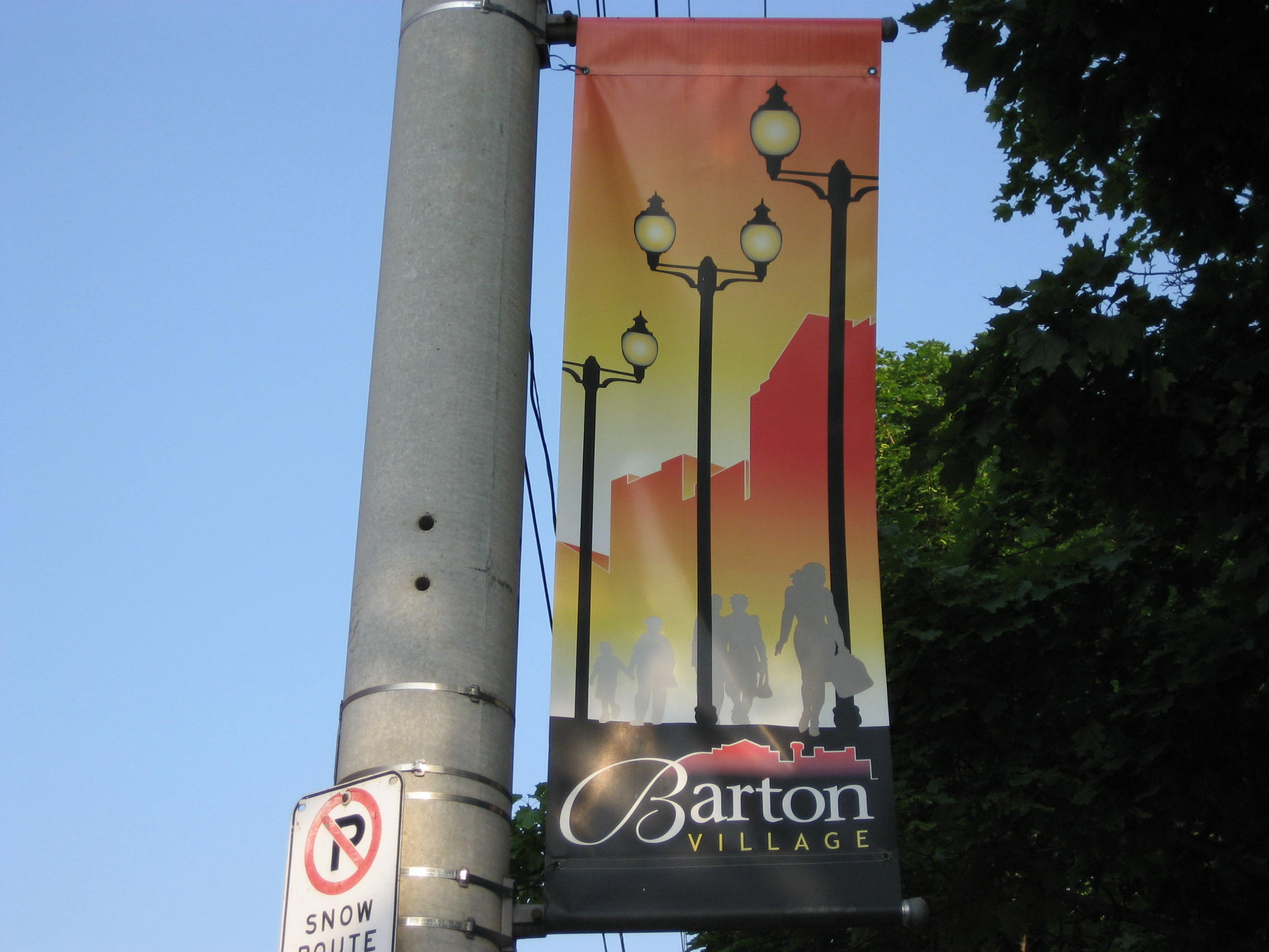 Barton Street Banner, downtown Hamilton, Ontario